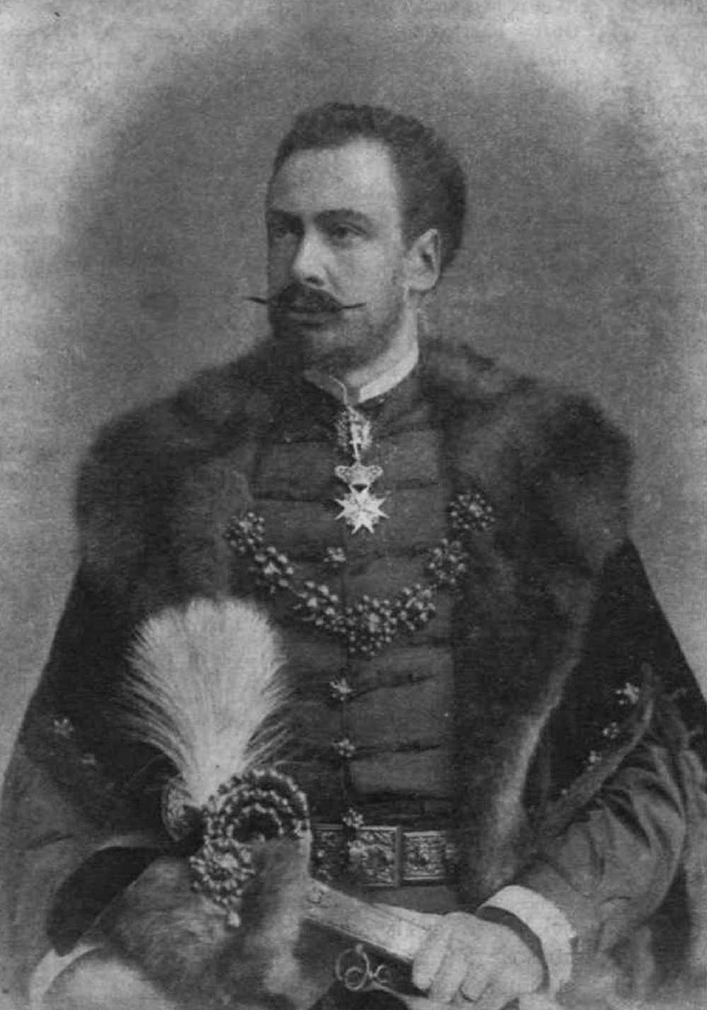 Tivadar Pejacsevich